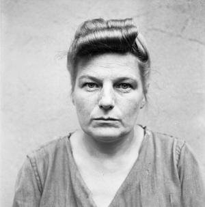 Herta Ehlert: sentenced to 15 years imprisonment.